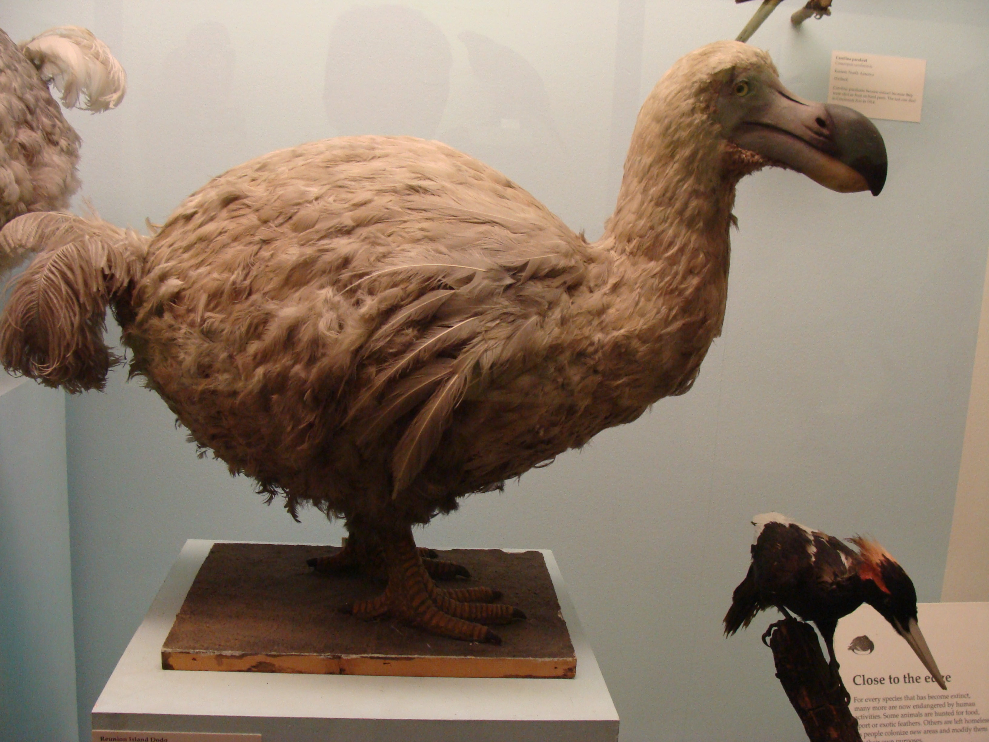 Raphus solitarius (replica) (Reunion Island Dodo) in the Natural History Museum of London